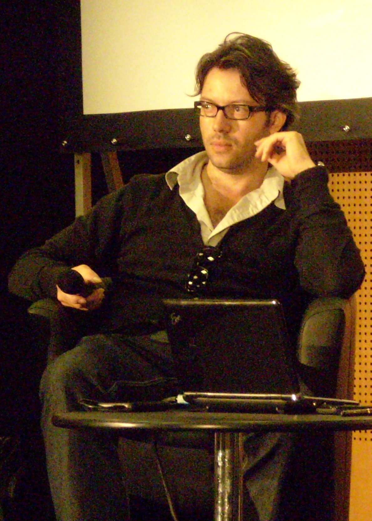 Viktor Antonov at Festival du Jeu vidéo 2010 (Paris).